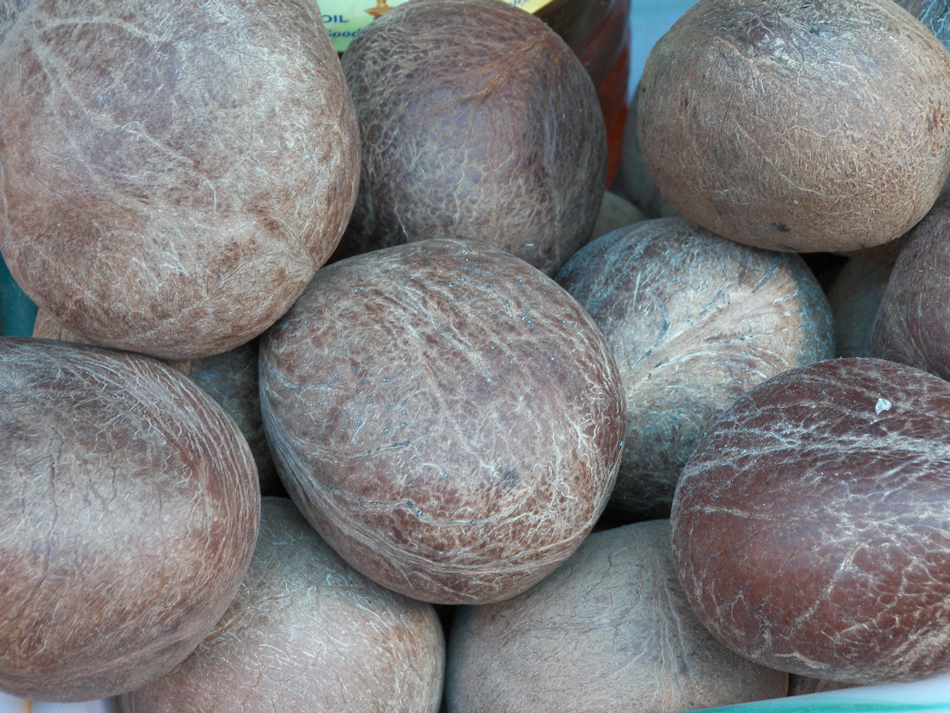 Rajesh Dangi, Jul 2007, Ulsoor Market, Bangalore "Dry Copra"